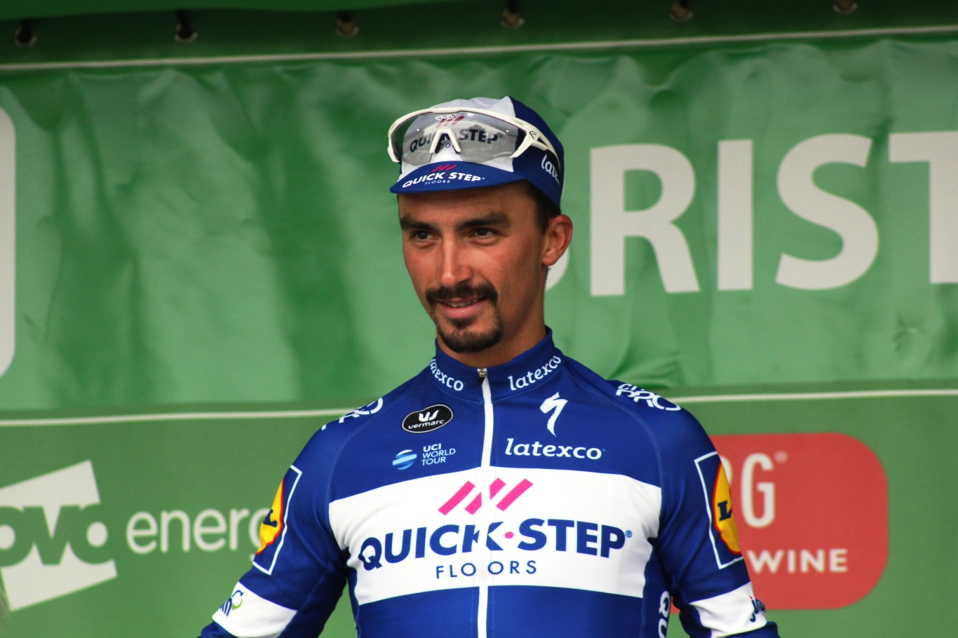 Julian Allaphillipe won the third stage of the 2018 Tour of Britain which was a circuit out and back from Bristol and around the Mendip Hills.